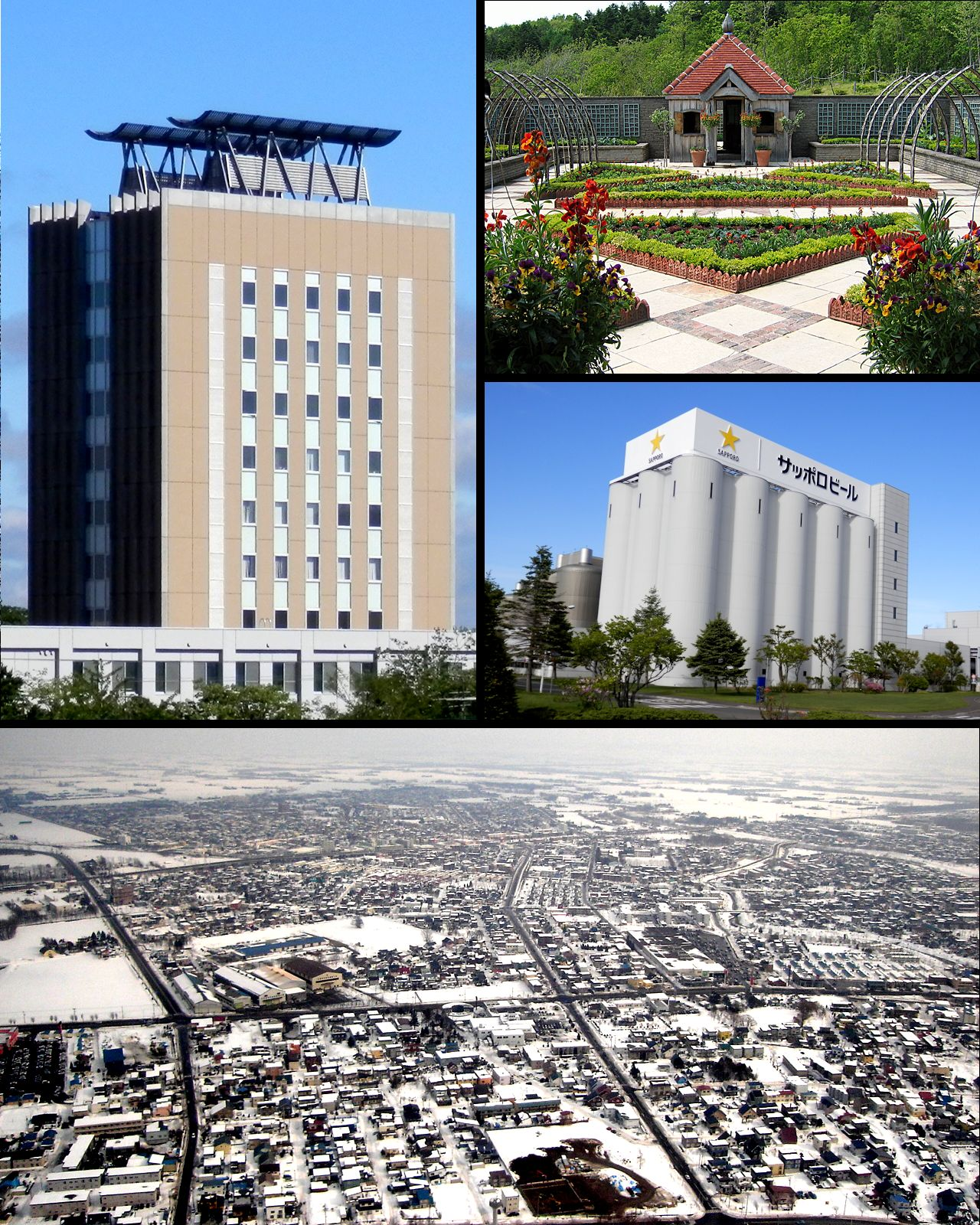 Images from top, left to right: Top left - Bunkyo University Top right - Flowers at Ecorin Village Centre right - Sapporo Beer Factory (Hokkaido) Bottom - Winter vista from helicopter